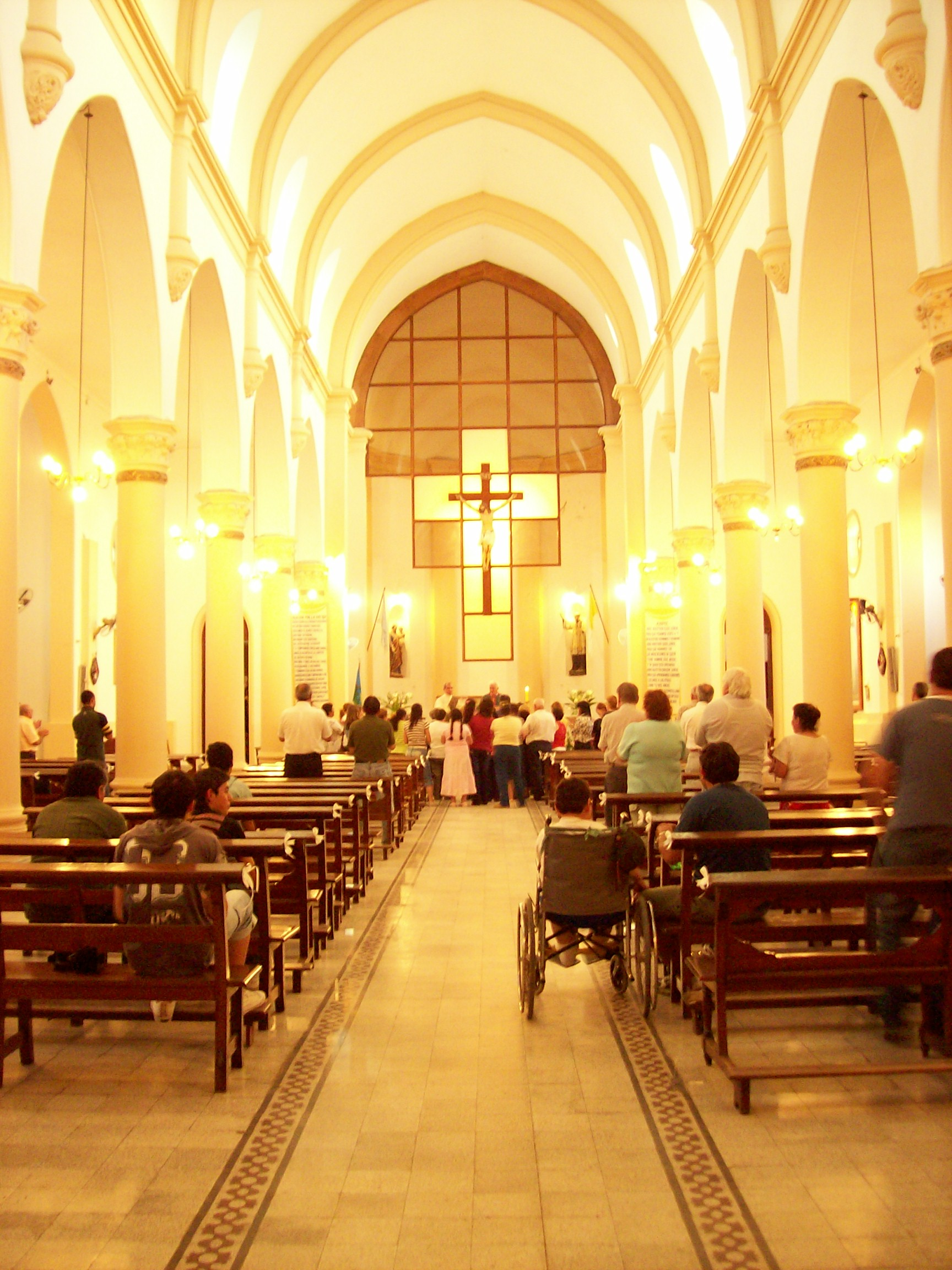 Inside view of the San Francisco Javier Parish in Ramallo, Buenos Aires Province, Argentina.